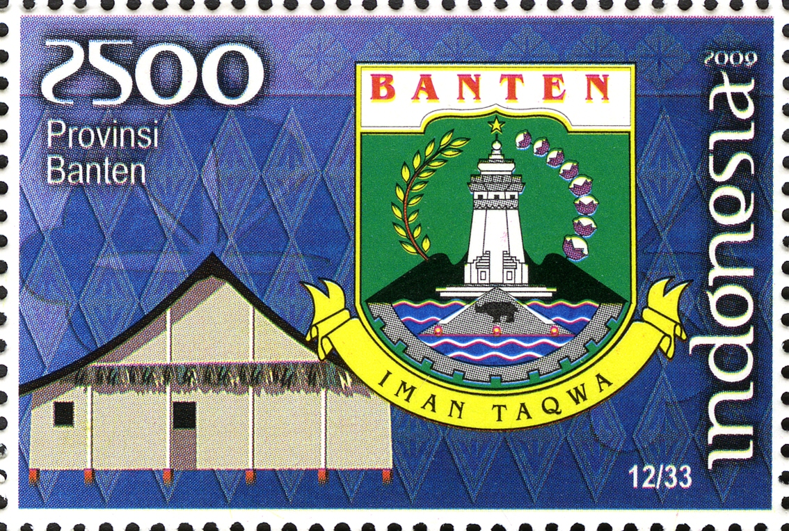 Stamps of Indonesia